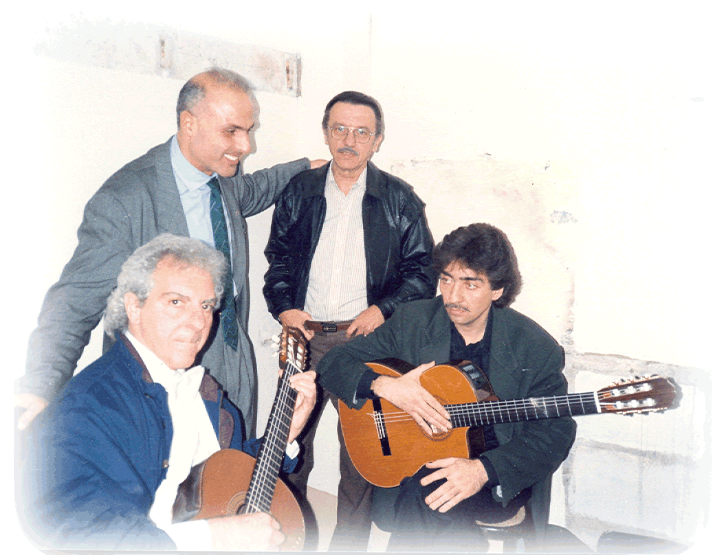 The journalist Gildo De Stefano with aulinho Nogueira at the Guitars' International festival